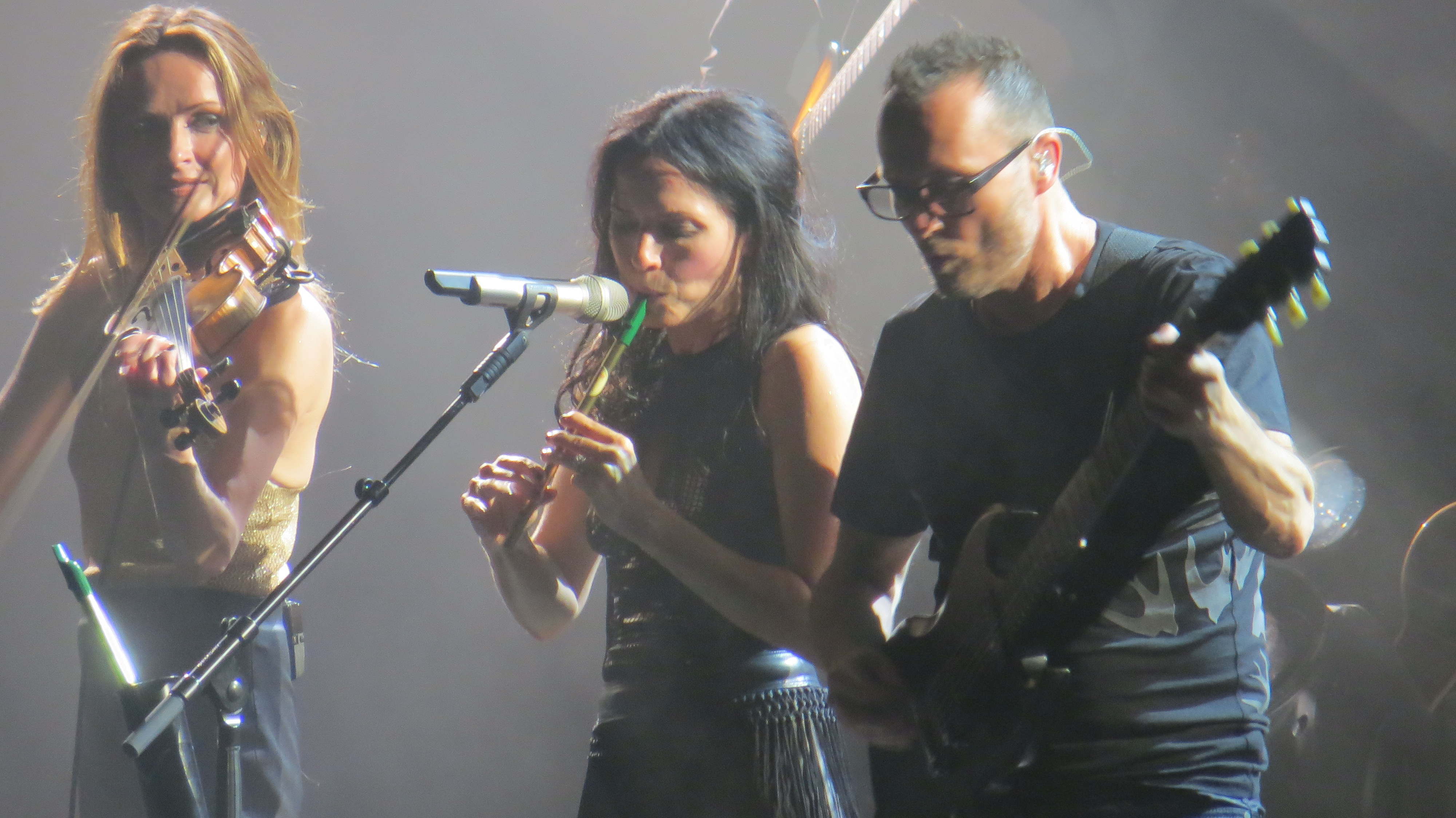 The Corrs in Vienna (Stadthalle, 2016)